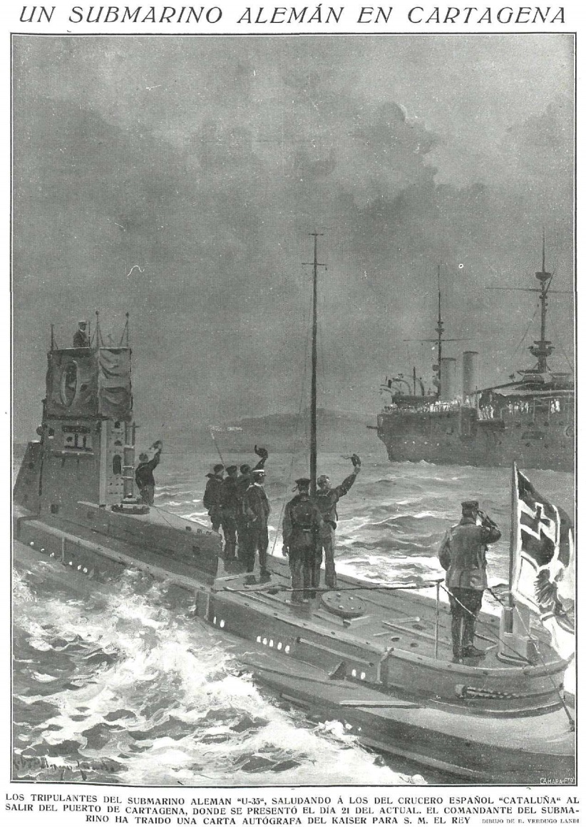 A German submarine in Cartagena — The crew of the German submarine "U-35", saluting those of the Spanish cruise "Cataluña" when leaving the port of Cartagena, where it was presented on the 21st day of the current month. The commander of the submarine has brought an autograph letter from the Kaiser to H. M. the King. Drawing of Don Verdugo Landi